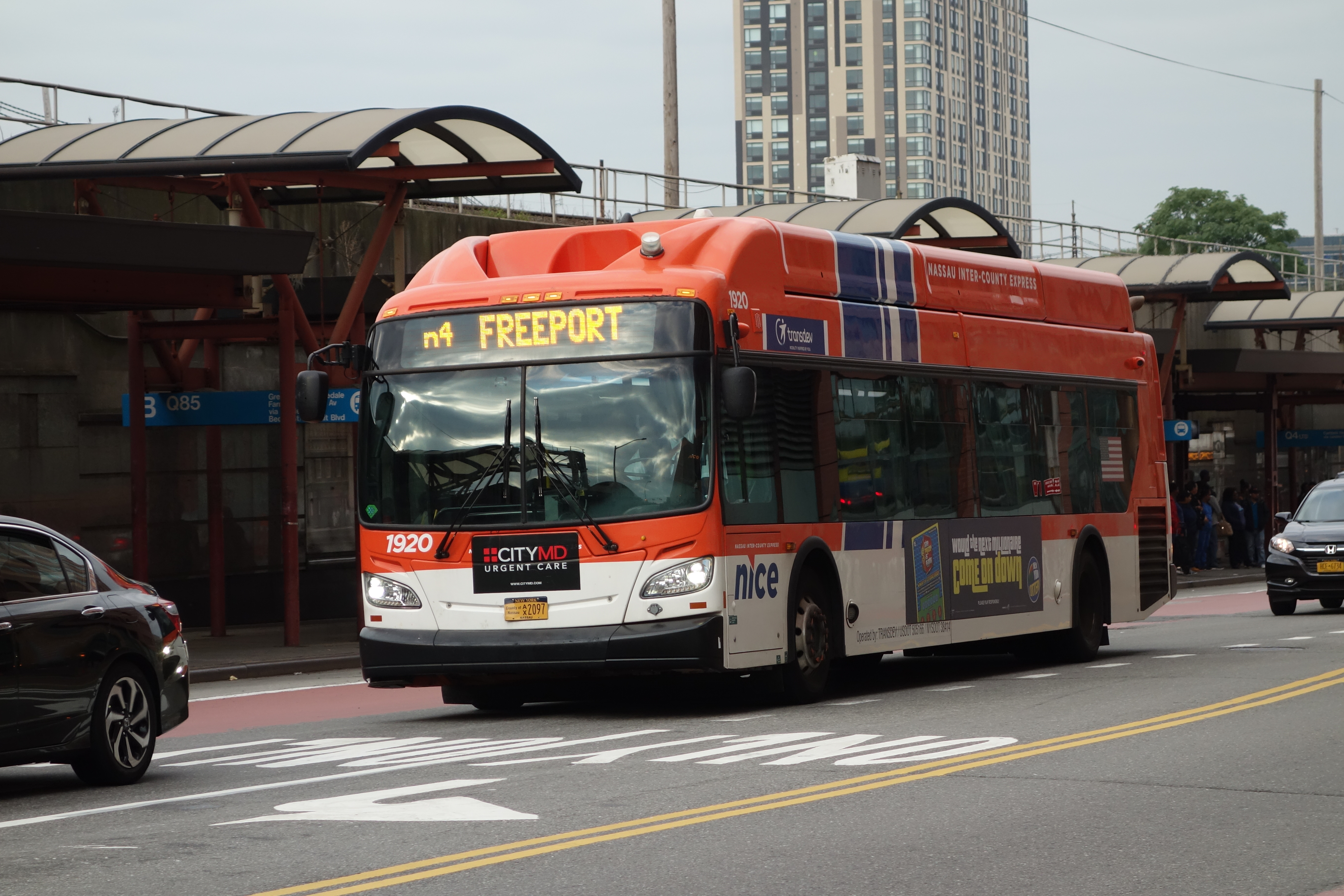 A Freeport LIRR-bound n4 bus traveling east through the Jamaica Center Bus Terminal, on Archer Avenue at Parsons Boulevard in Jamaica, Queens.